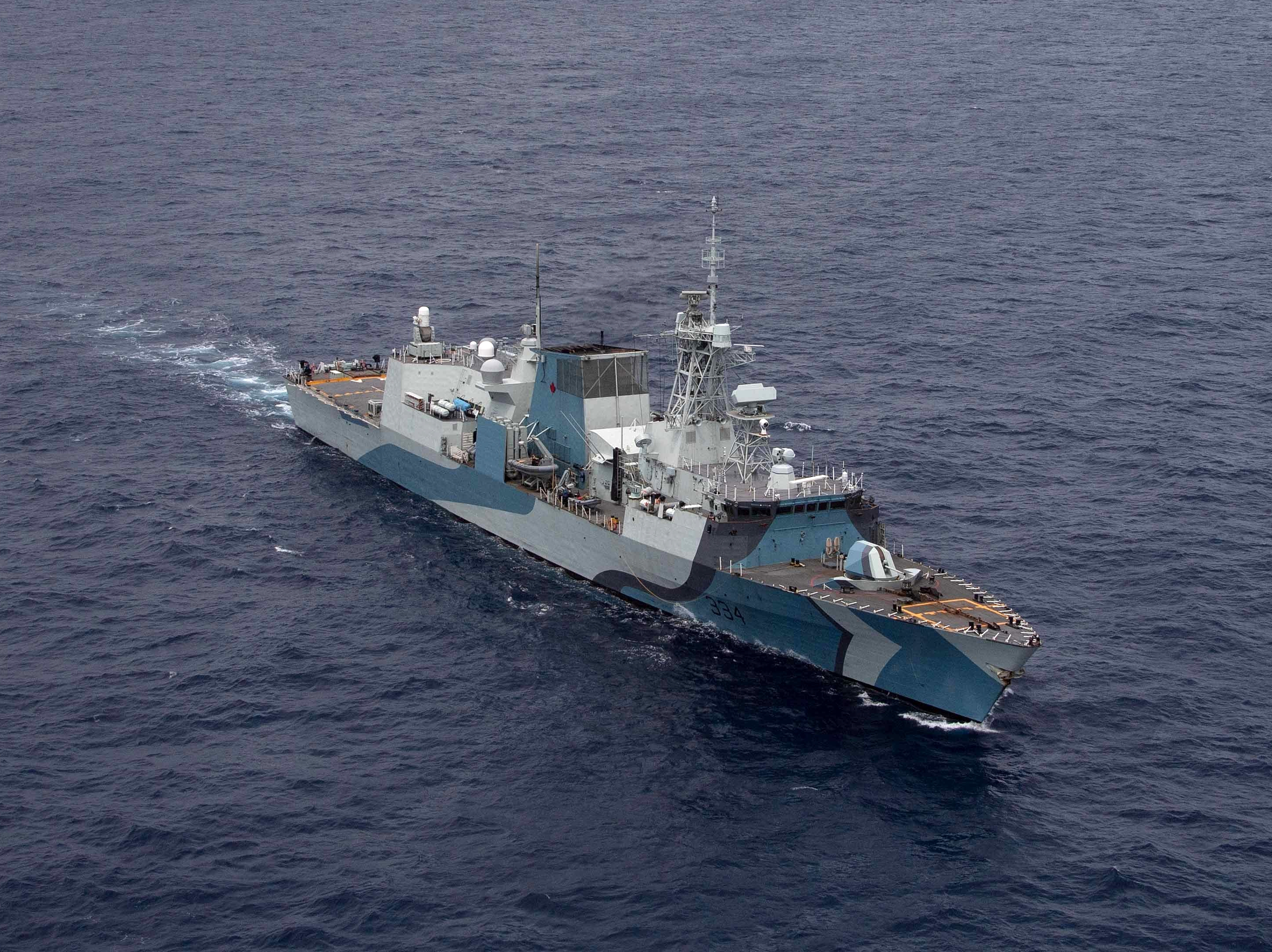 The Royal Canadian Navy frigate HMCS Regina (FFH 334) underway off the coast of Hawaii during the exercise "Rim of the Pacific (RIMPAC) 2020" on 21 August 2020. Note that Regina is painted a dazzle camouflage. She was repainted in November 2019 to commemorate the 75th anniversary of the Battle of the Atlantic.